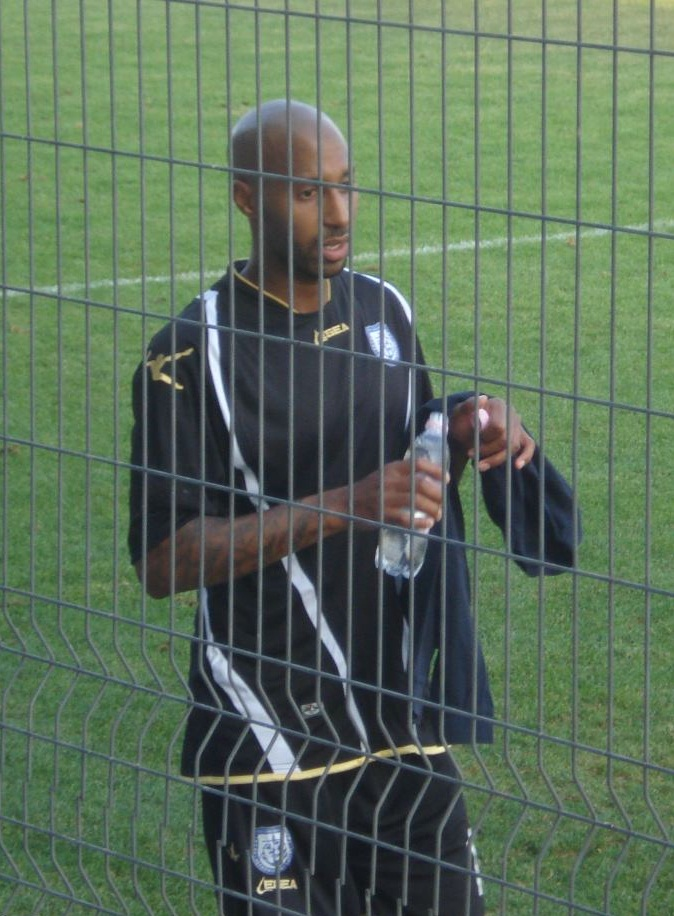 Mickaël Tavares with Chernomorets Burgas kit.